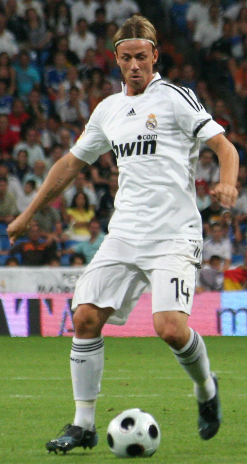 José María Gutiérrez of Real Madrid, against Valencia This file has been extracted from another file: Guti vs Valencia 2008 Supercopa.jpg